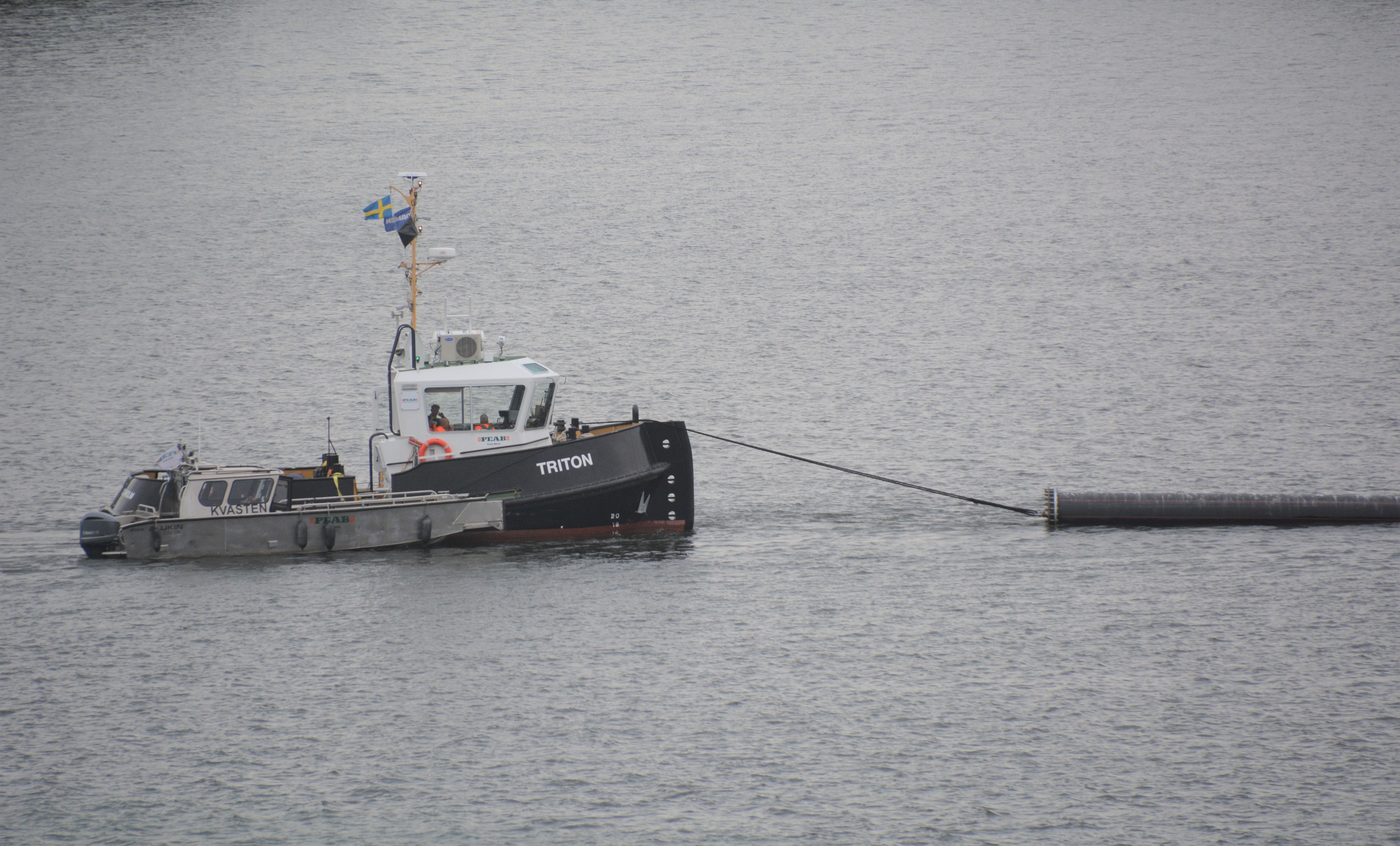 MS Triton, Peab Marine, Stockholm